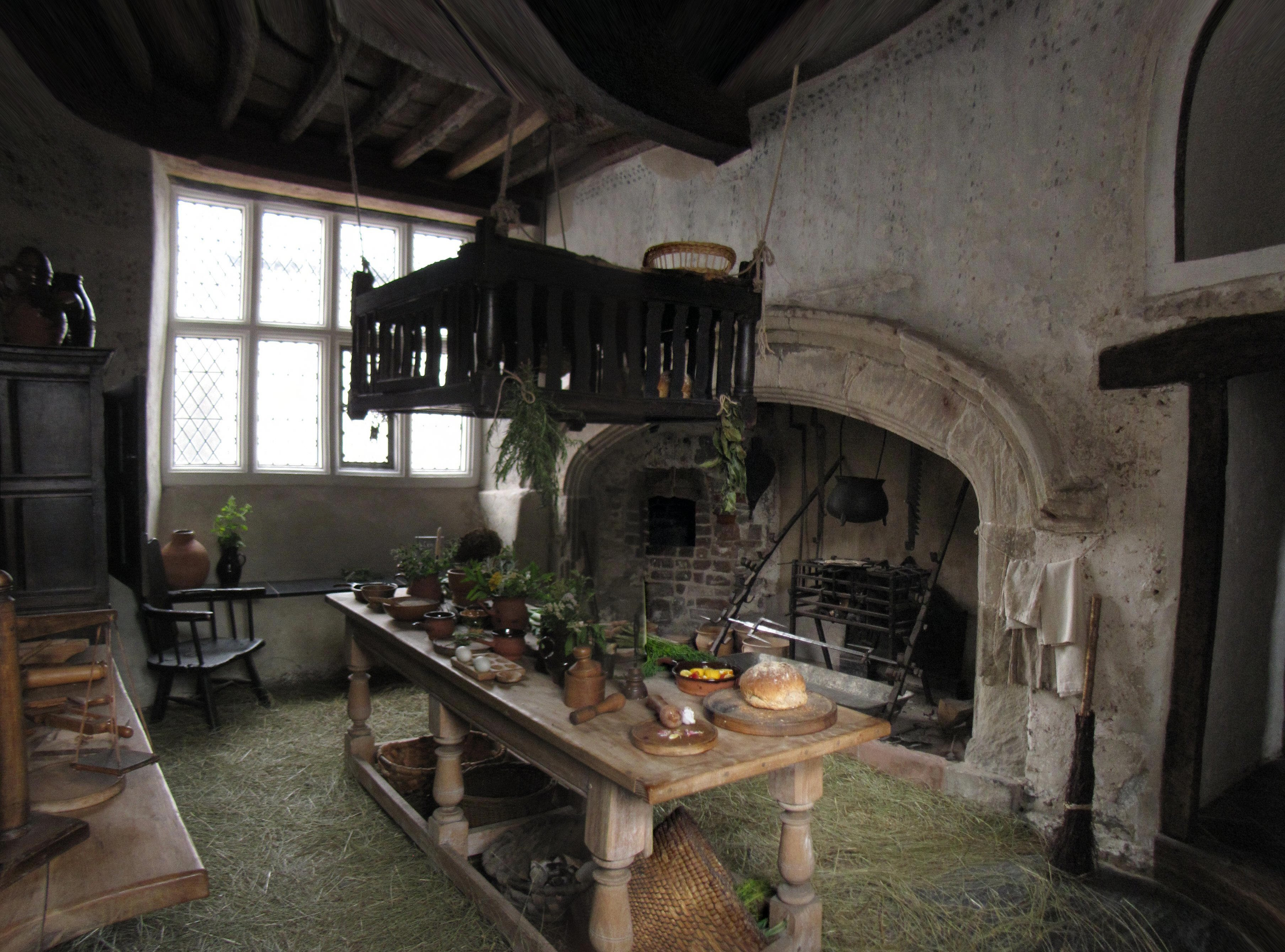 Plas Mawr Conway